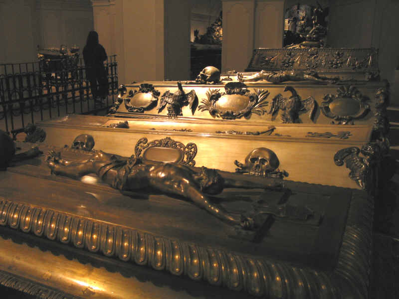 Austria, Vienna, Capuchin Church, Imperial Crypt